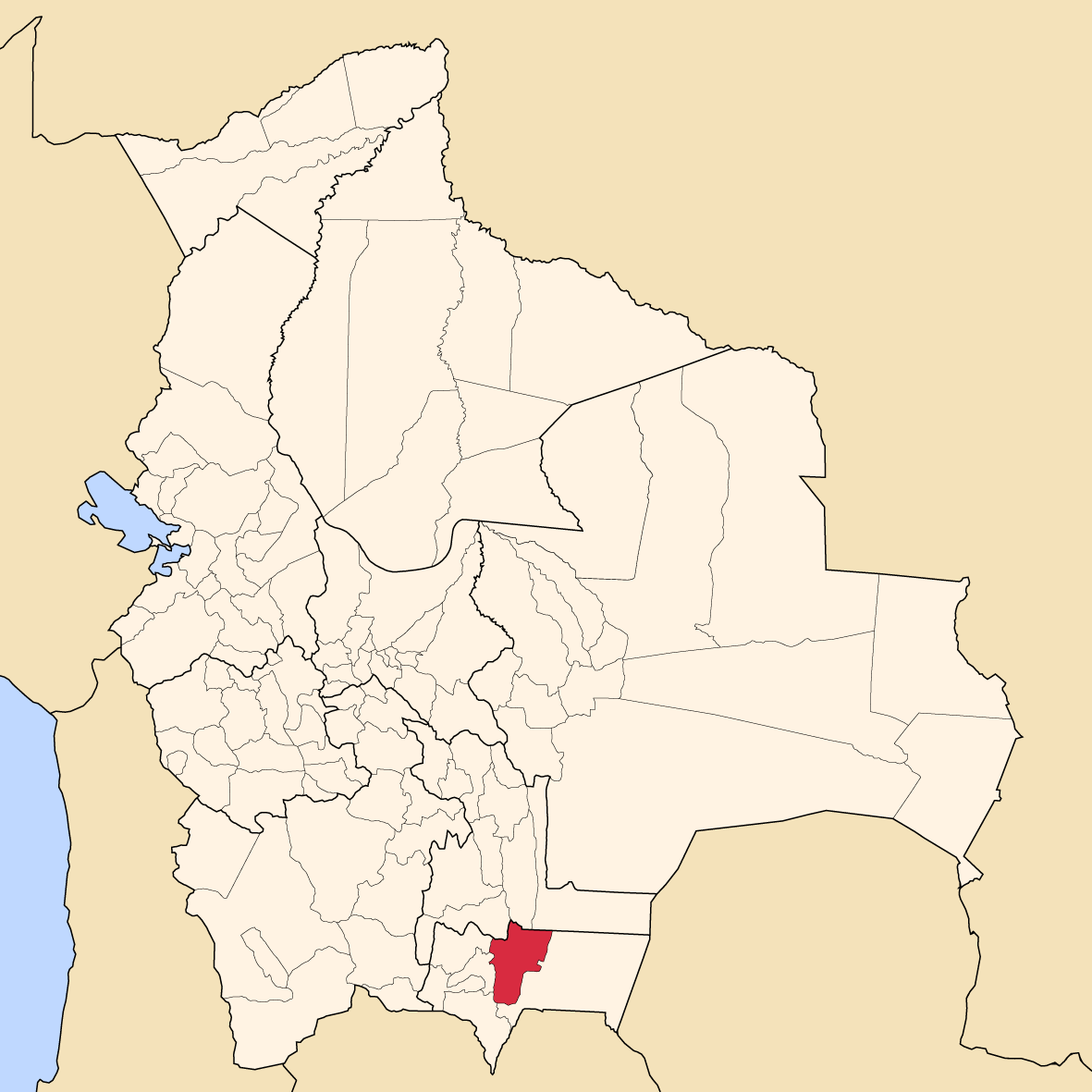 Map of Bolivia showing Burnet O'Connor province, Tarija